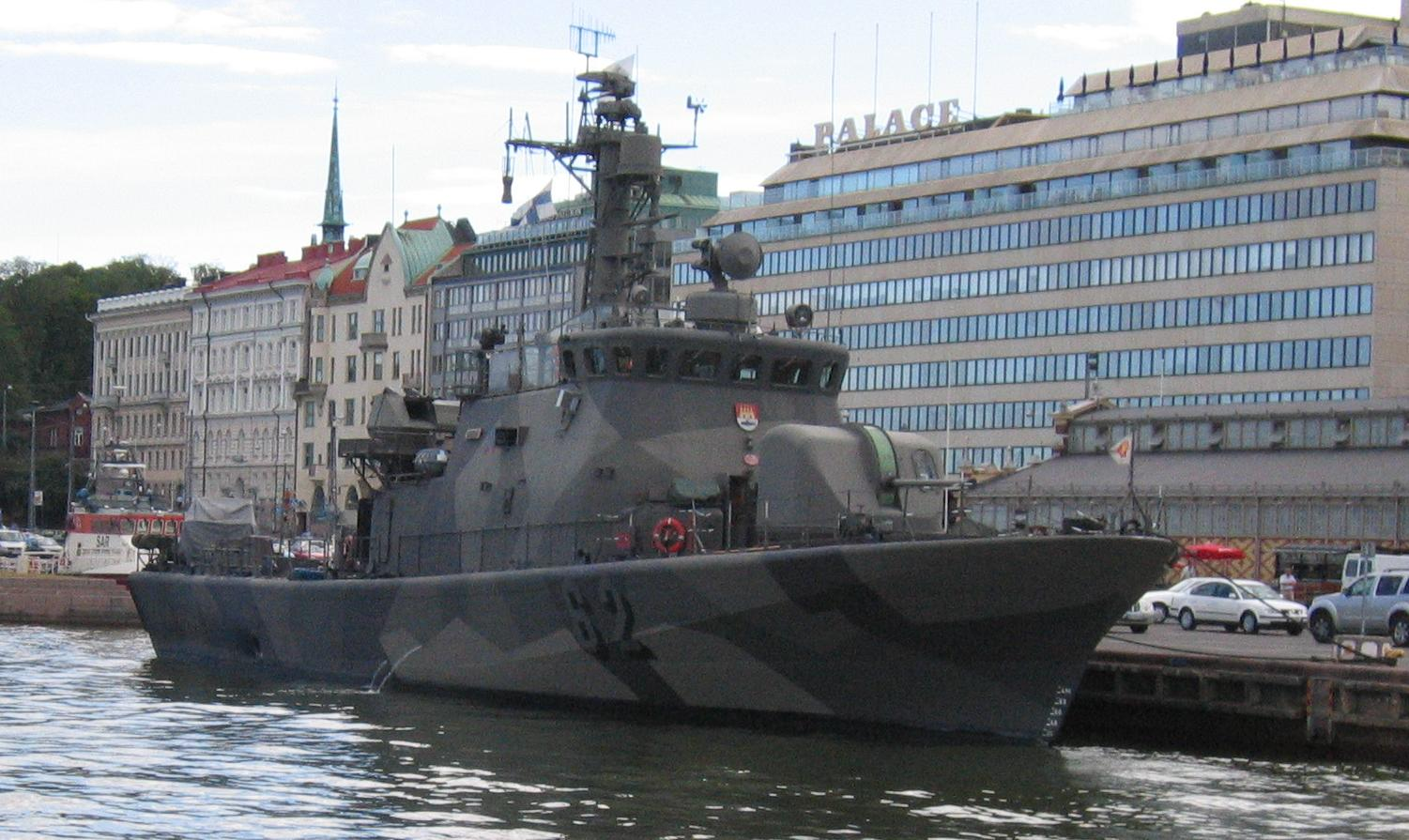 Helsinki class fast attack craft Oulu of the Finnish Navy in the Port of Helsinki. Now commissioned in Croatian Navy.